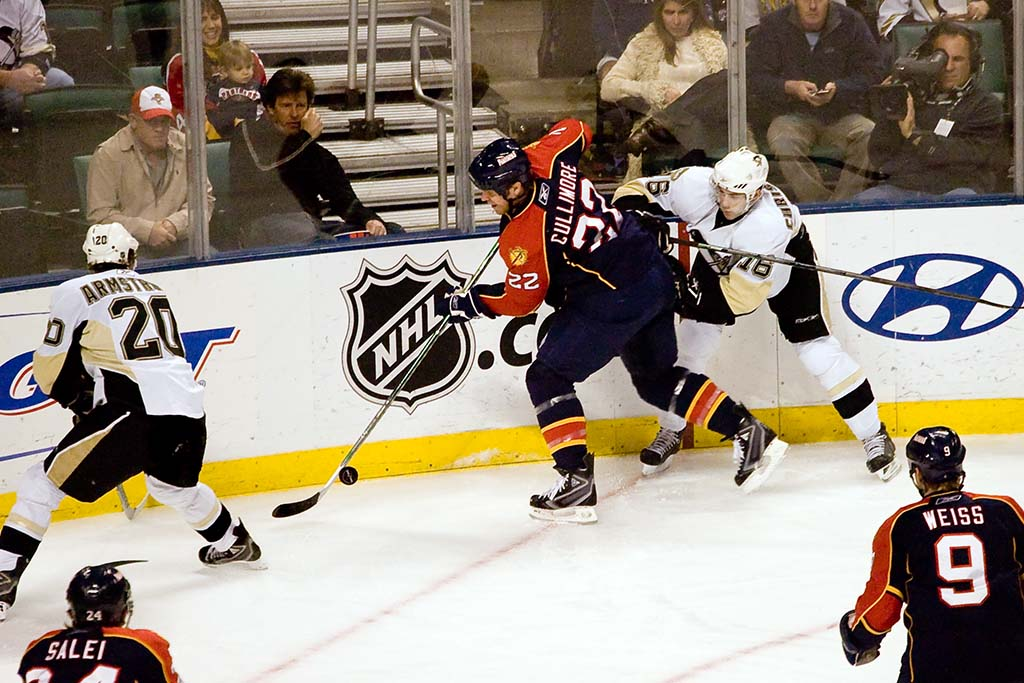 Pittsburgh Penguins vs. Florida Panthers